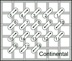 A diagram of Continental tent stitch.